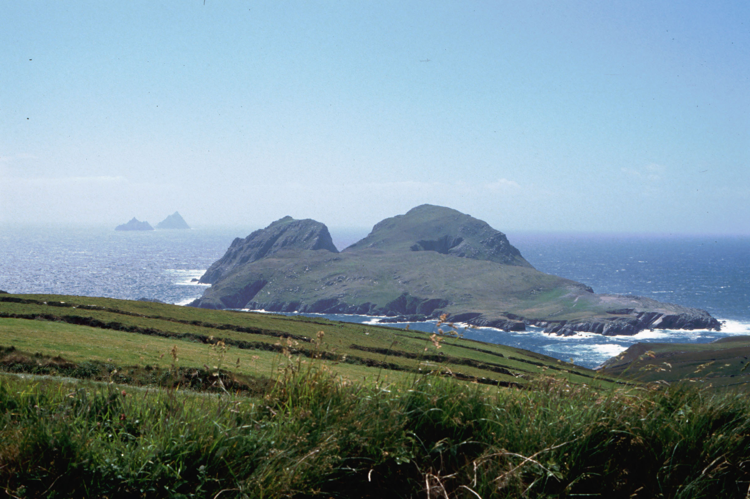 Puffin Island, Co. Kerry, with the Skelligs in the background. Photo by Hugh McCann, June 1991